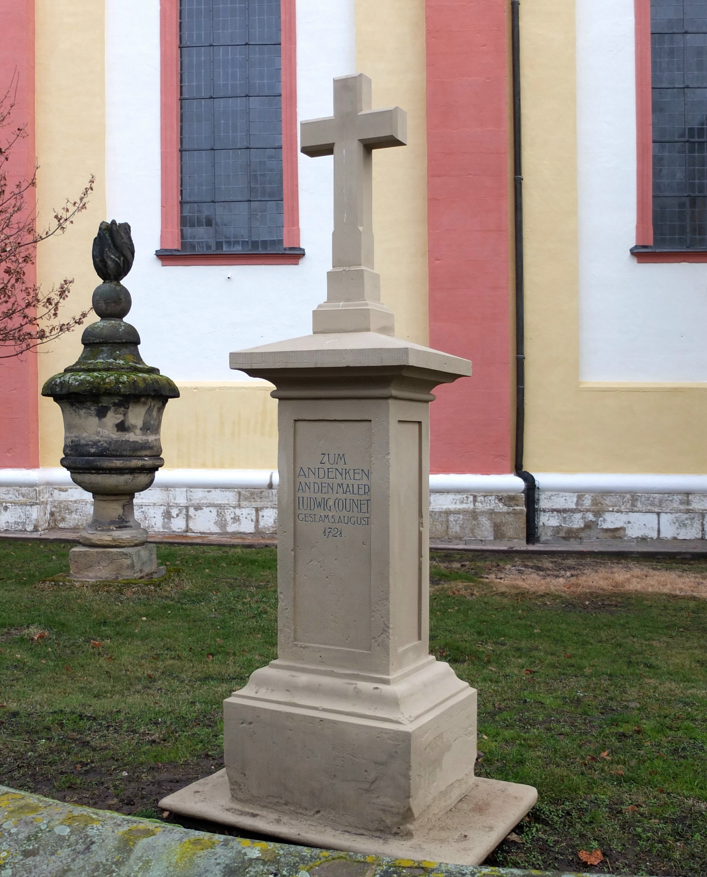 Commemorative cross next to St. Paulinus' Church Trier, for the Baroque painter Louis Counet, who was murdered in Trier in 1721.